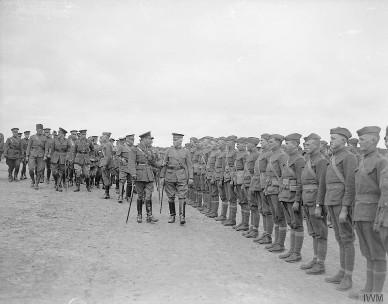 The US Army on the Western Front, 1917-1918 King George V and Major-General Edward M. Lewis inspecting troops of the American 30th Division, 6 August 1918. The division, together with the 27th Division, formed the American II Corps which remained in the British zone until the Armistice. Photograph possibly taken at Achicourt.